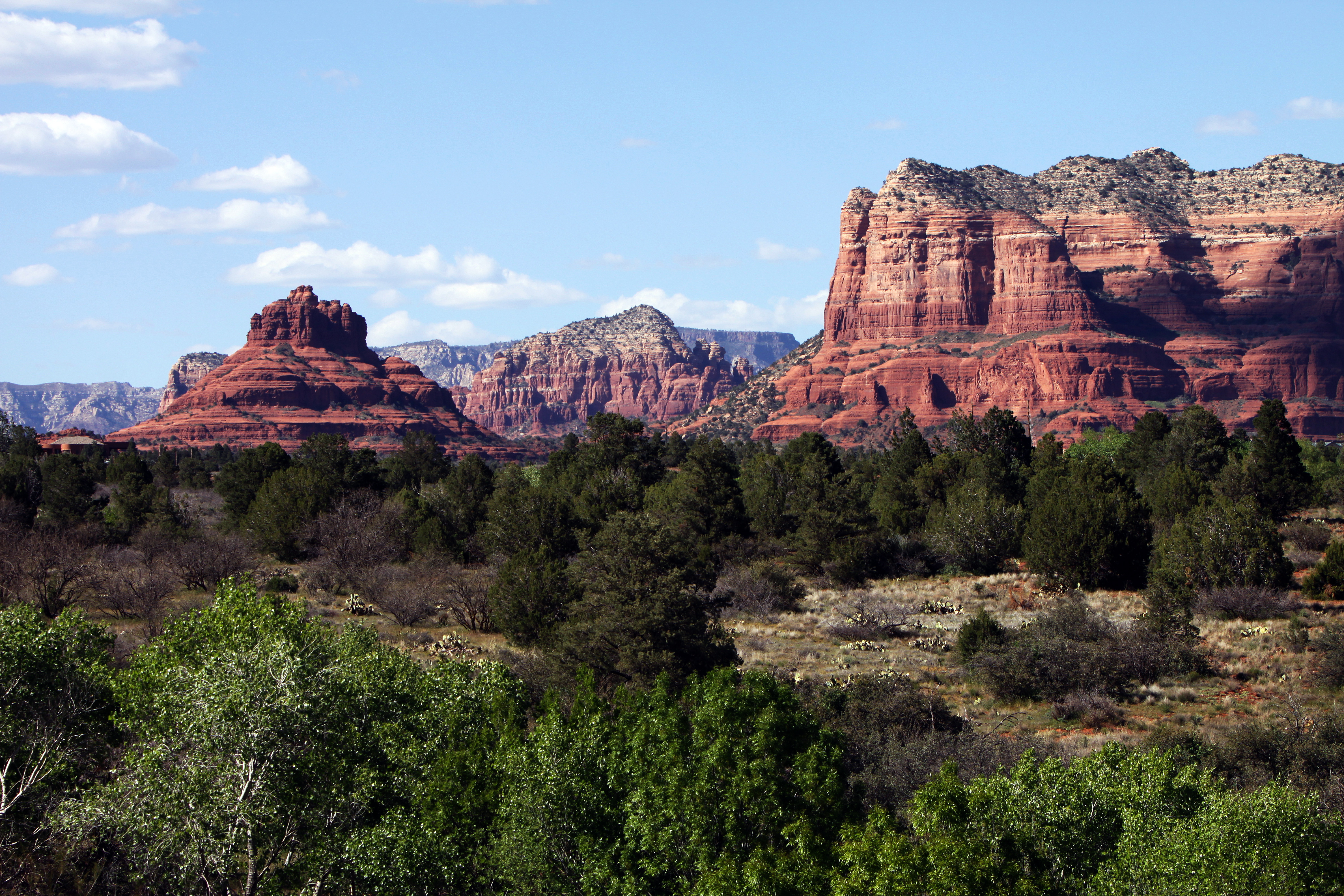 Bell Rock in Sedona, Arizona, USA. (Geology sequence, top to bottom)-In the Sedona, AZ/Oak Creek Canyon region (also Sycamore Canyon, to the west), the following geology occurs in sequence: 3--(cliffs)-Coconino Sandstone2--Schnebley Hill Formation, (Bell Rock Member, Apache Limestone Member, etc.)1--Hermit Formation Note: In specific locales, the geology above the 3 (on Mogollon Rim, Colorado Plateau, etc), is Toroweap Formaiton, overlain by Kaibab Limestone.